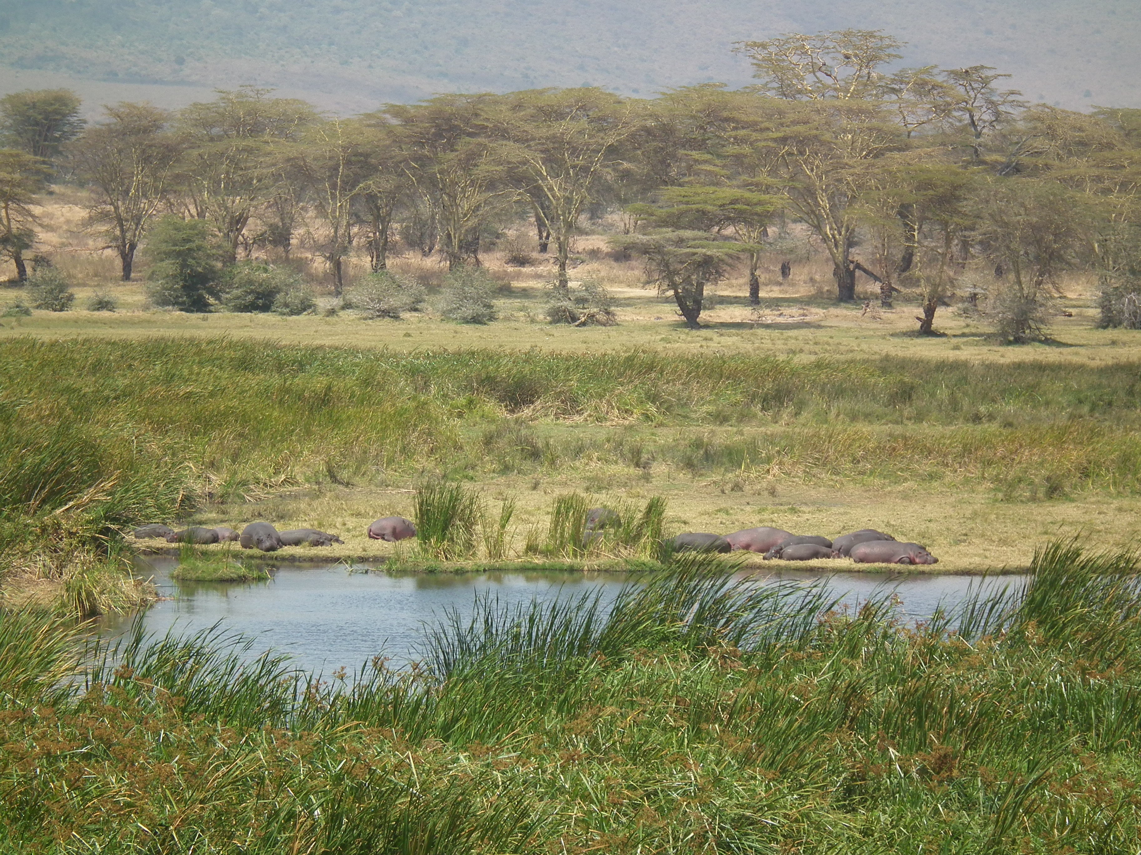 Hippopotamus amphibius from Tanzania